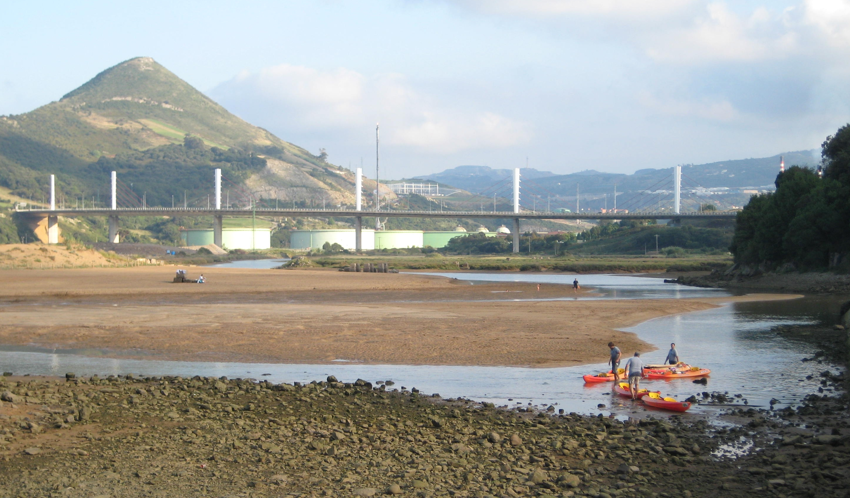 River Barbadun in Muskiz, near its stuary, September 26, 2009.